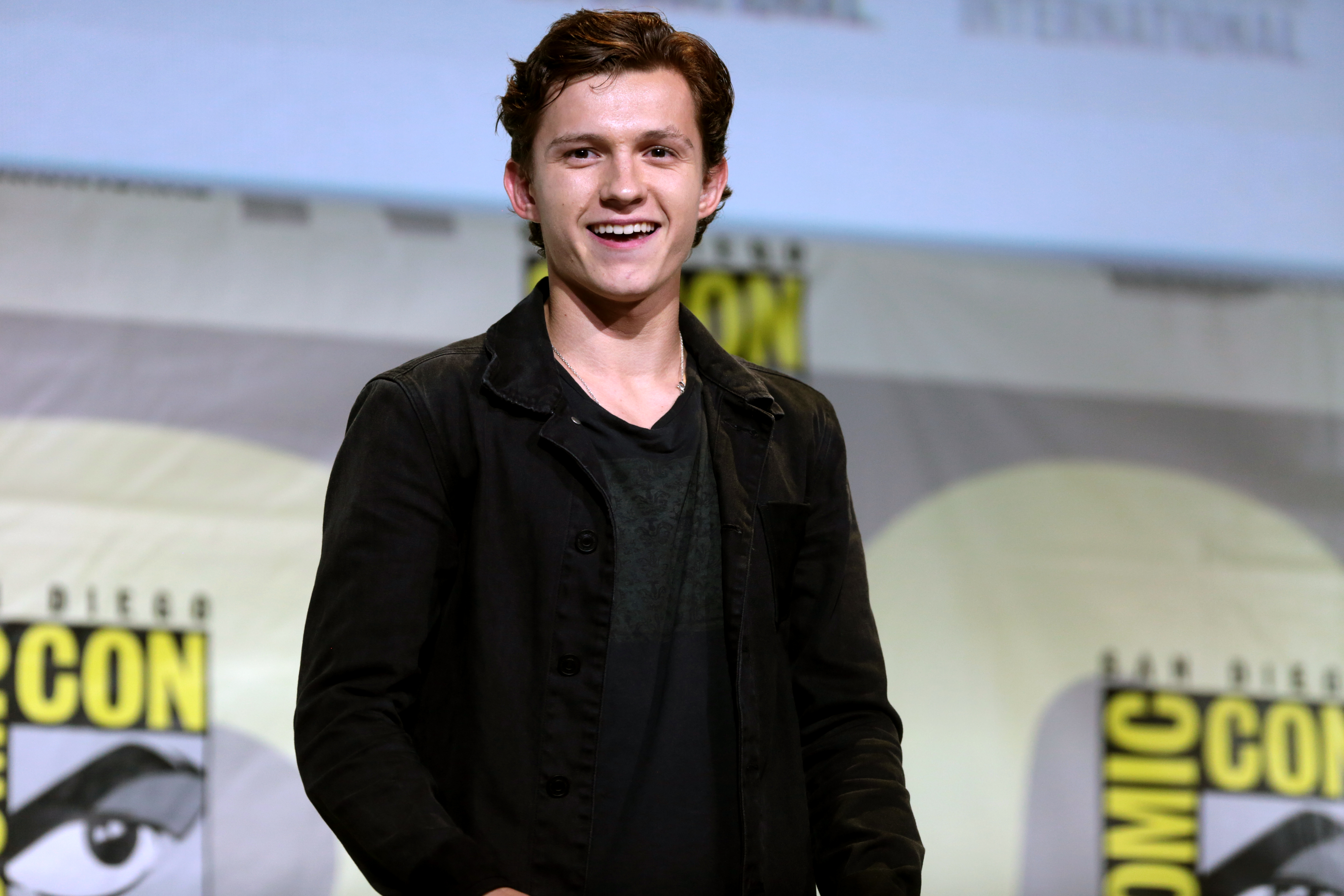 Tom Holland speaking at the 2016 San Diego Comic Con International, for "Spider-Man: Homecoming", at the San Diego Convention Center in San Diego, California.